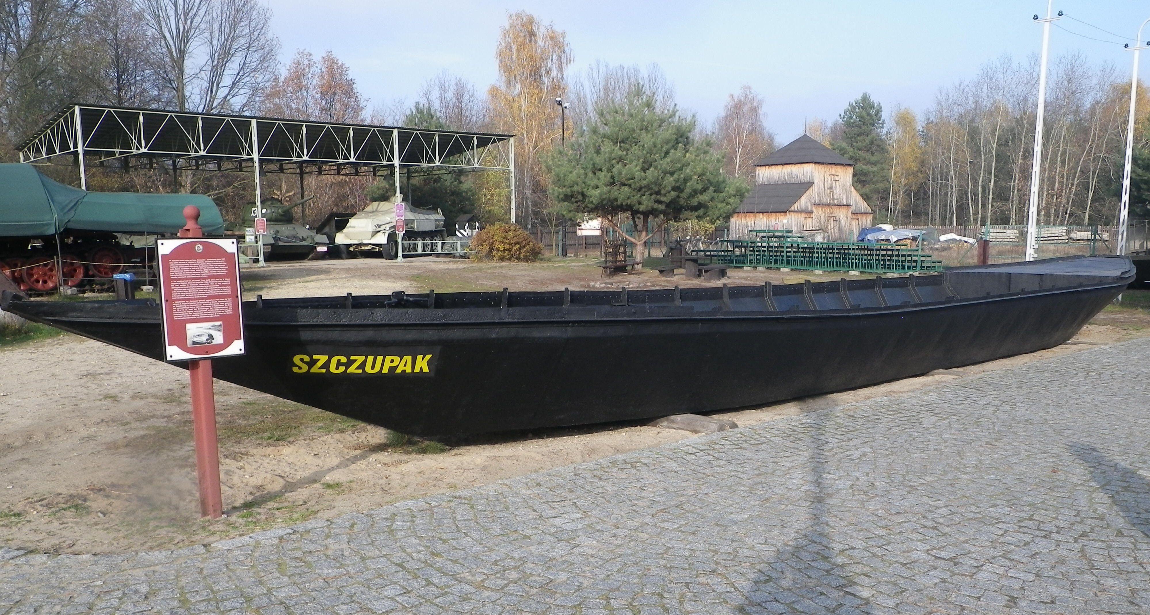 Pilica River Open-Air Museum (Skansen Rzeki Pilicy) in Tomaszów Mazowiecki - river boat